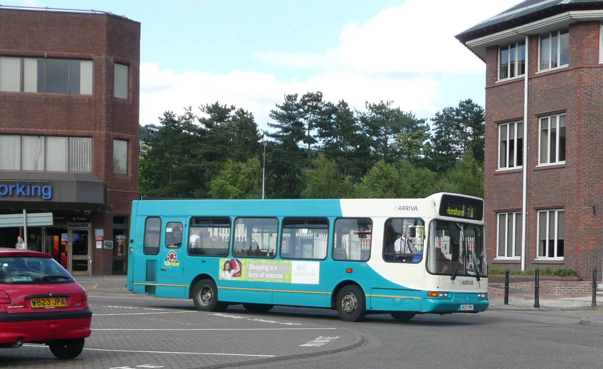 Arriva Guildford & West Surrey 3037 (N237 VPH), a Dennis Dart SLF/East Lancs Spryte, at Dorking railway station, in Dorking, on route 93.